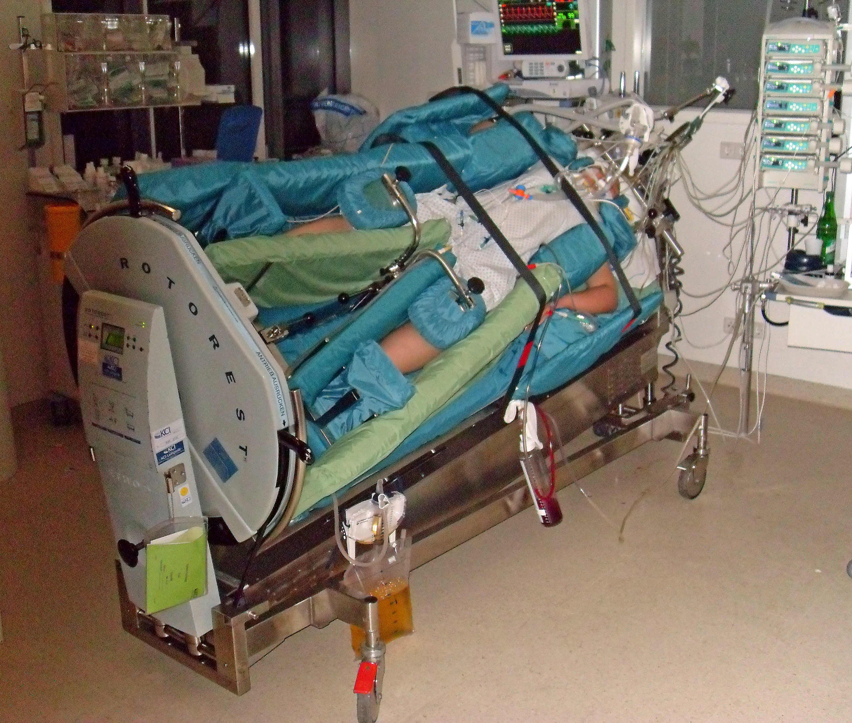 Hospital bed on ICU